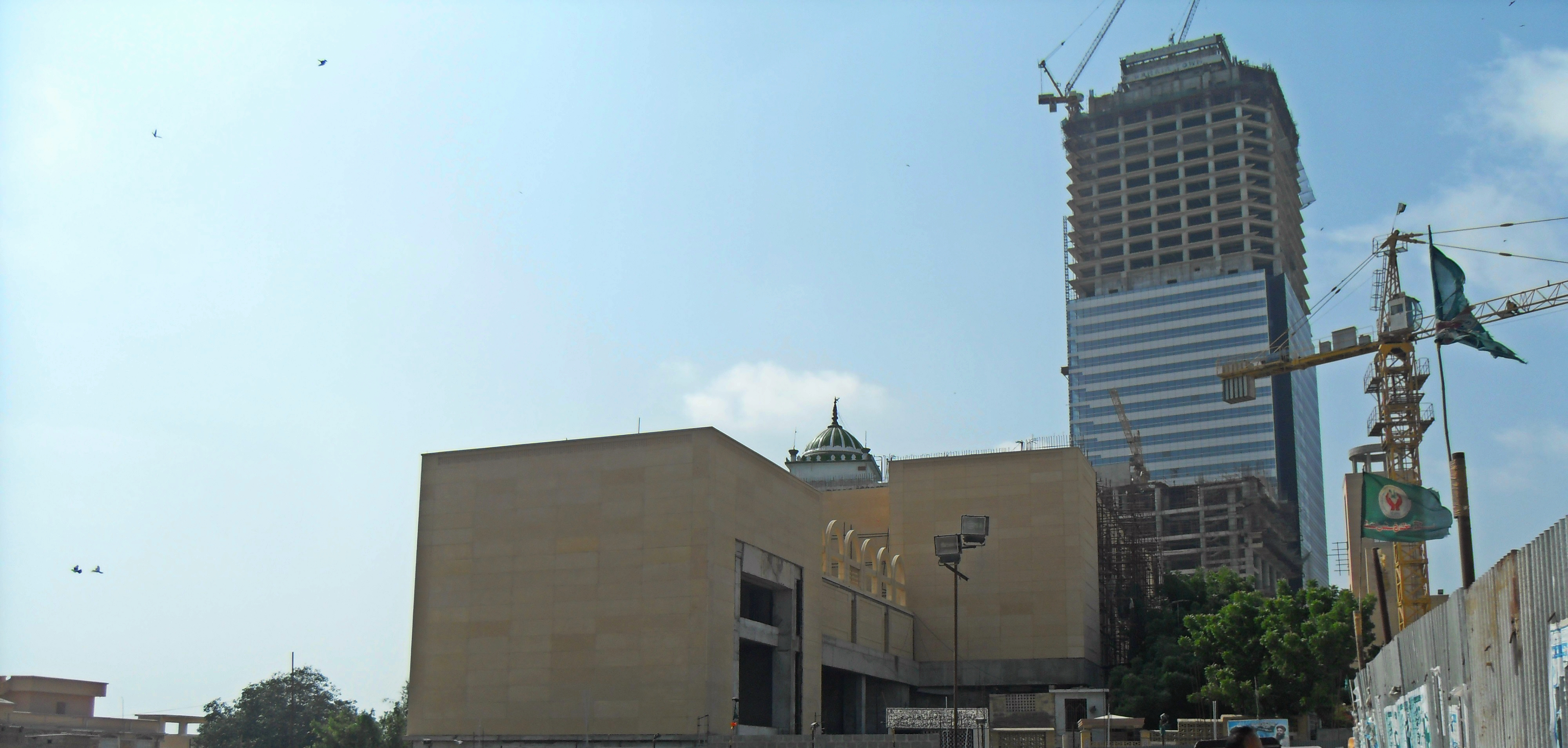 Abdullah Shah Ghazi Mausoleum is under construction these days. This is a photo of a monument in Pakistan identified as the SD-P-68